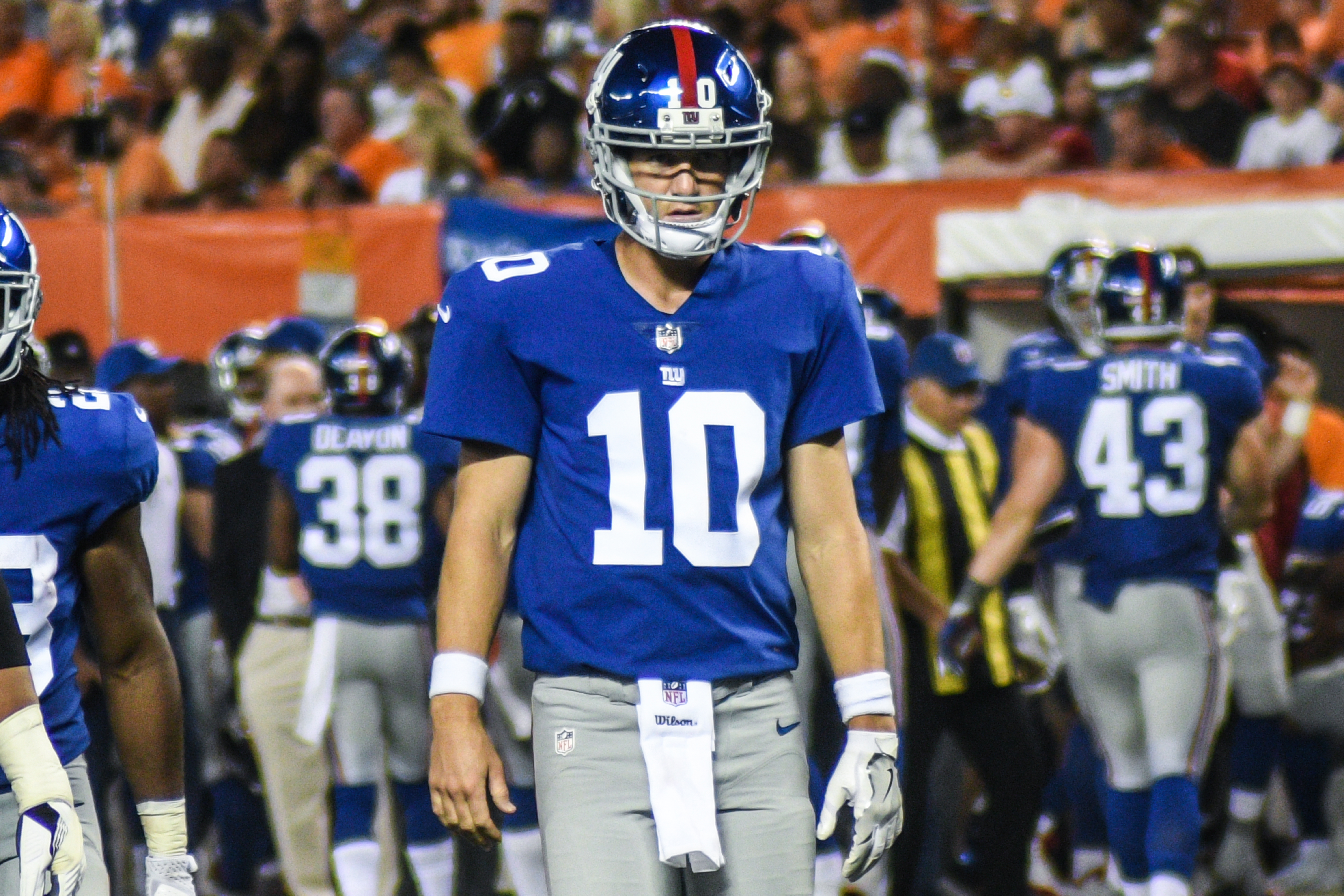 Cleveland Browns vs. New York Giants